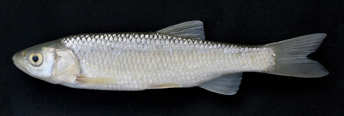 Squalius janae, live specimen. PZC 457, 160.6 mm SL, Croatia: Boljunscica.